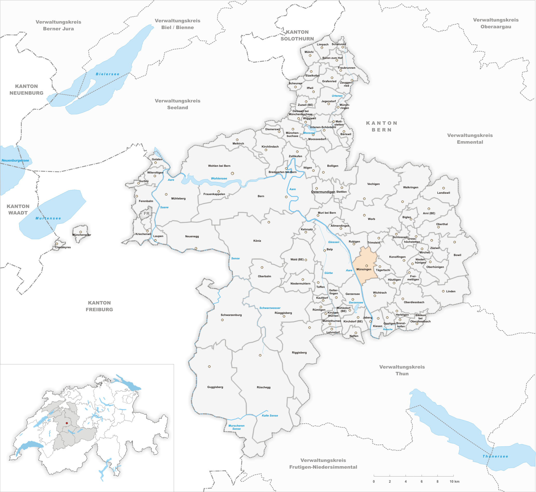 Municipality Münsingen